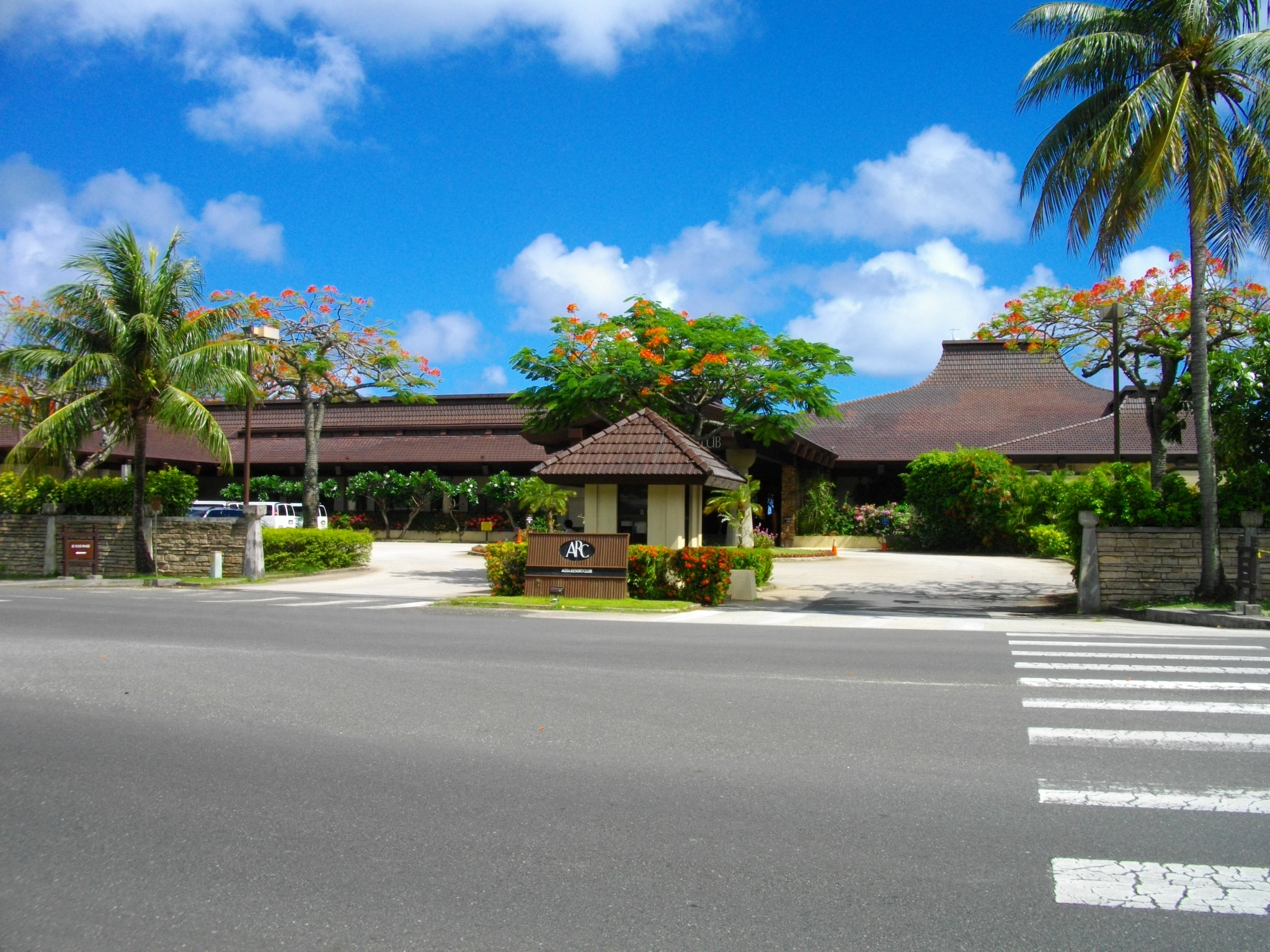 Aqua Resort Club Saipan